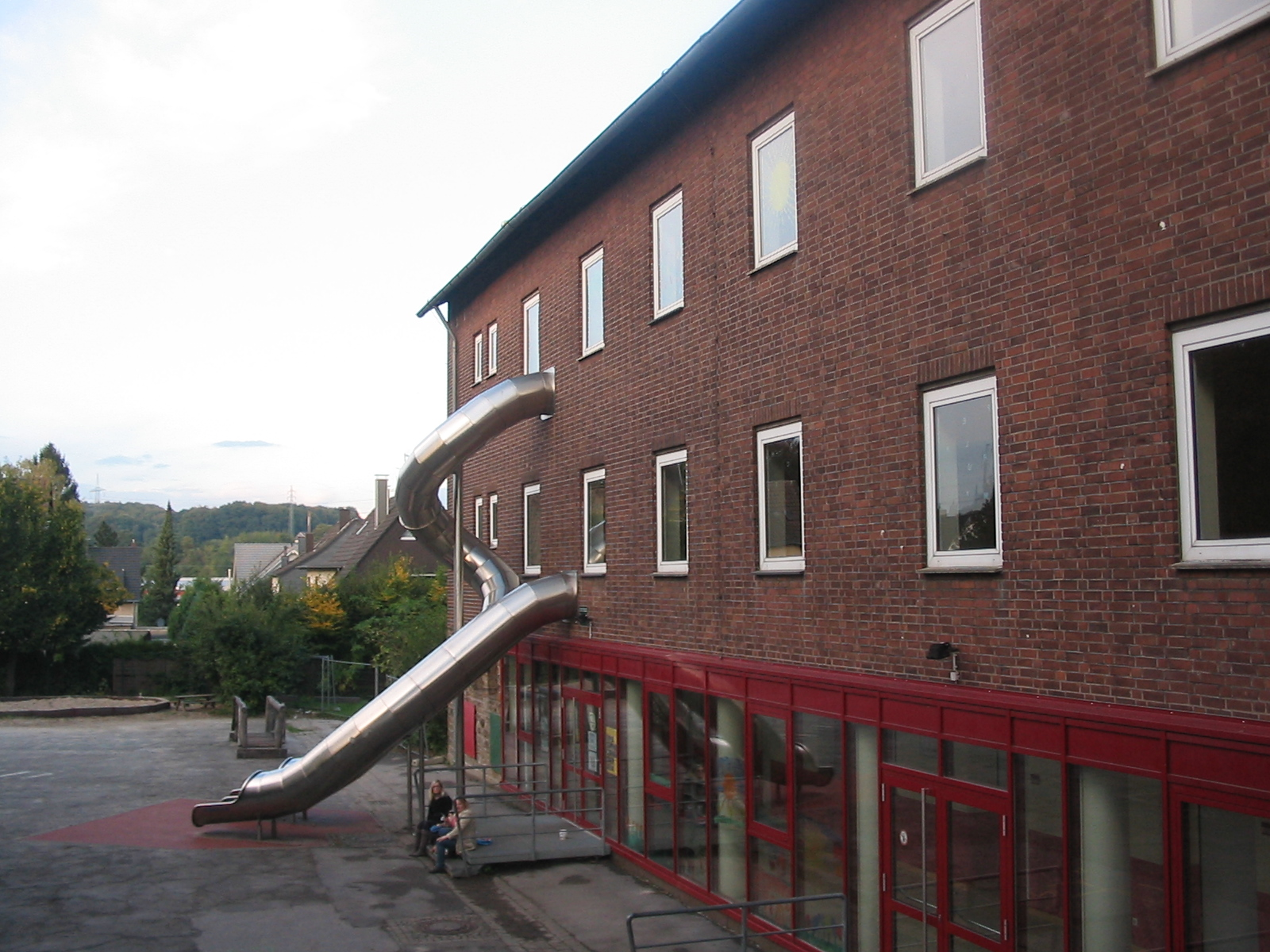 School Crengeldanzschule in Witten